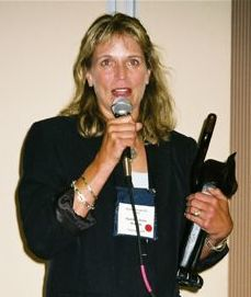 Harley Jane Kozak, American actress and author.